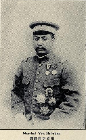 Yan Xishan, Baichuan (1883 - 1960)